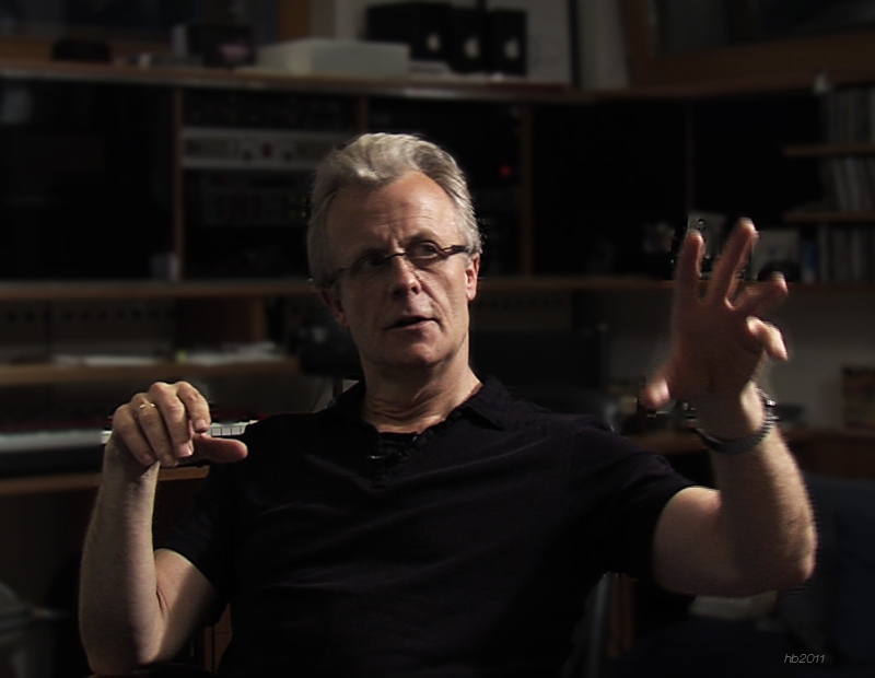 Producer and musician Thomas Rabitsch in his Vienese studio 2011